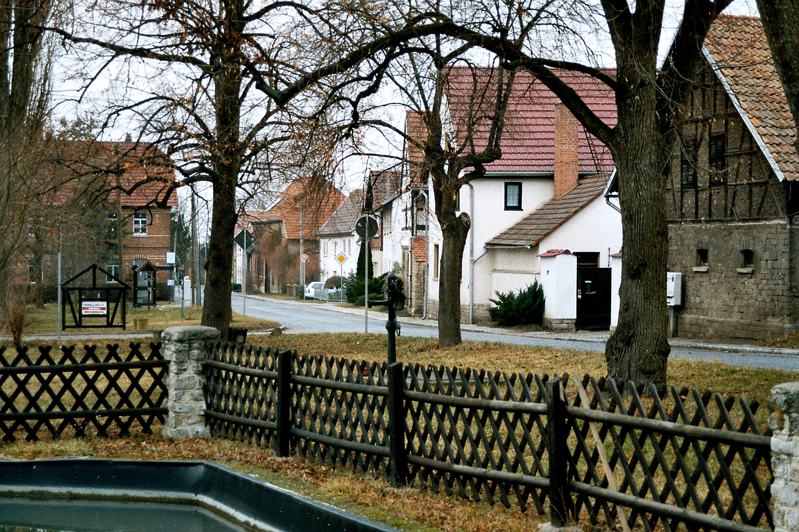 village green